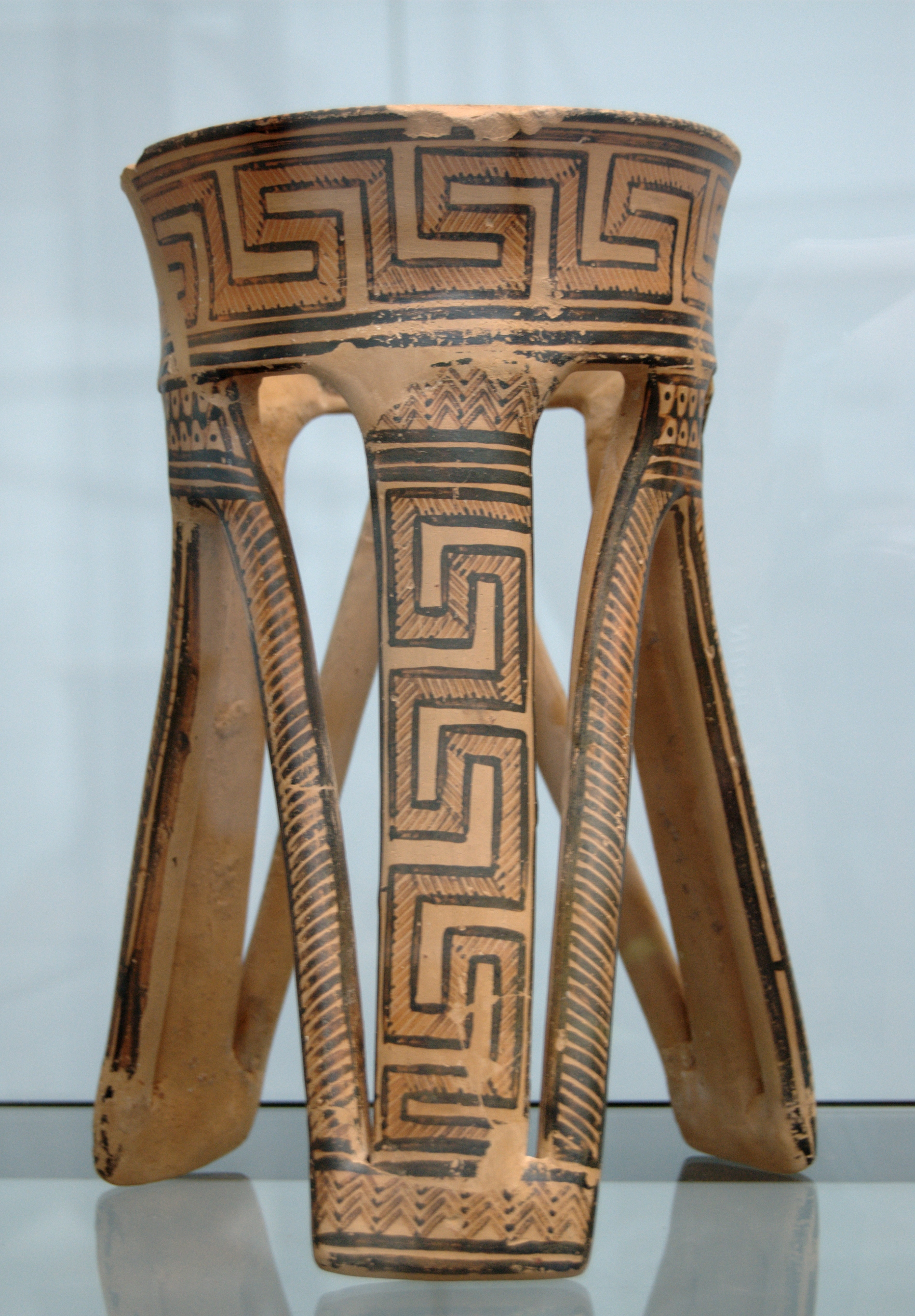 Pottery from a tomb. This clay support, probably for a wine jug, copies the precious bronze tripods of older times: an allusion to the “heroic” ages. Attica, early-Geometric style, ca. 850 BC.